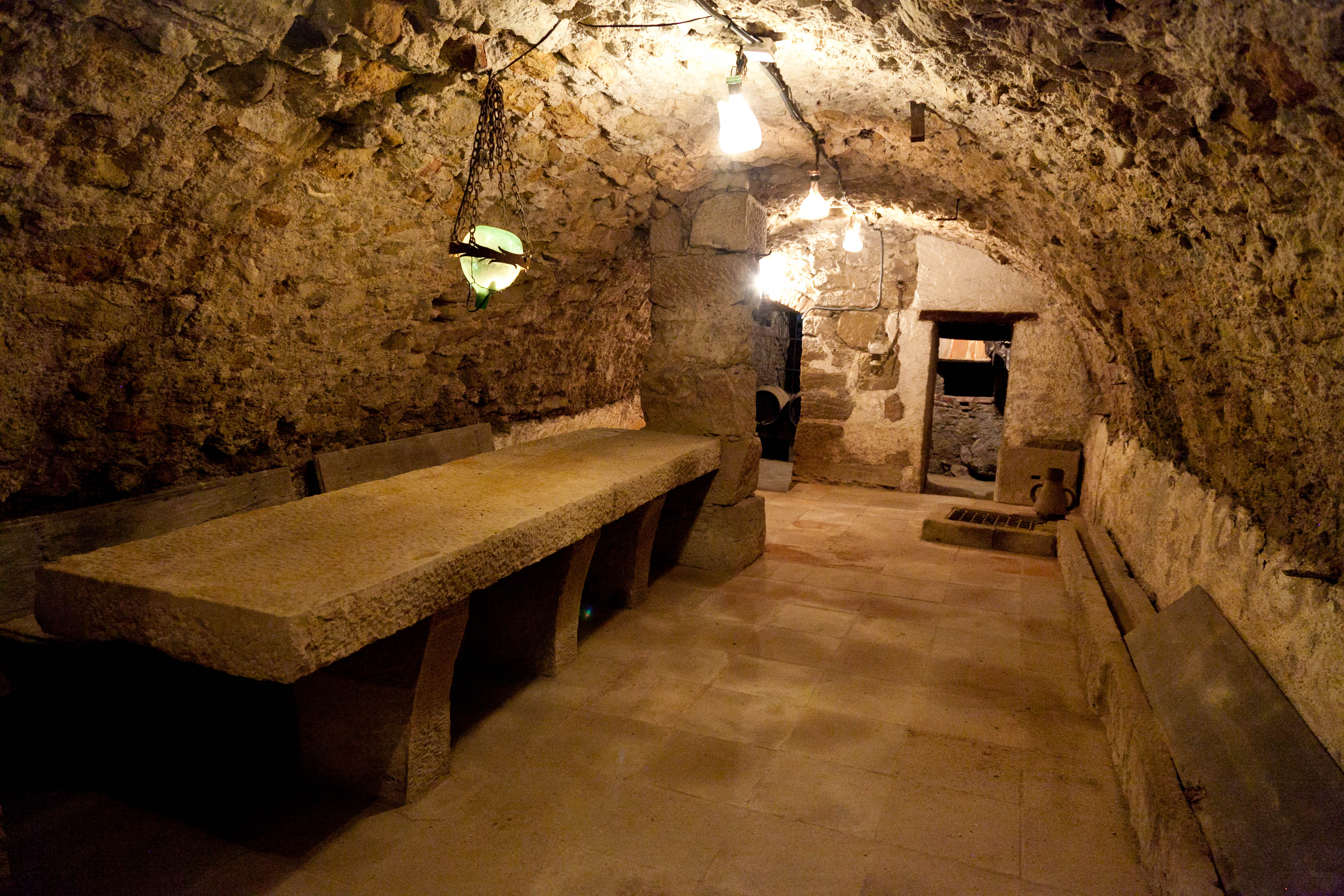 Celler a la part jueva de la casa